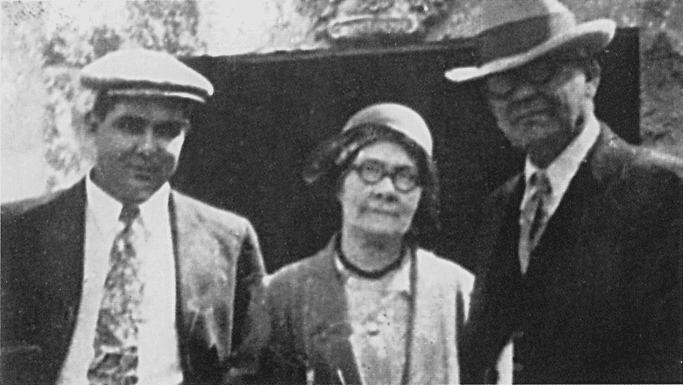 Photograph of Robert E. Howard in his twenties with his parents. From left to right: Robert Ervin Howard, Hester Jane Ervin Howard (mother) and Dr. Isaac Mordecai Howard (father).